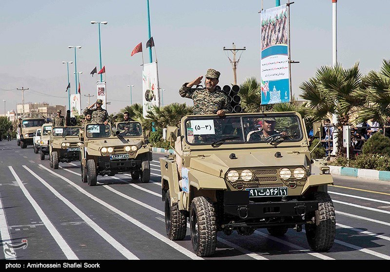 A line of the Iranian Safir jeeps at a parade in Iran. The first jeep is equipped with a Type-63 rocket launcher, the second with an M40 pattern recoilless rifle, and the third with a Toophan ATGM.